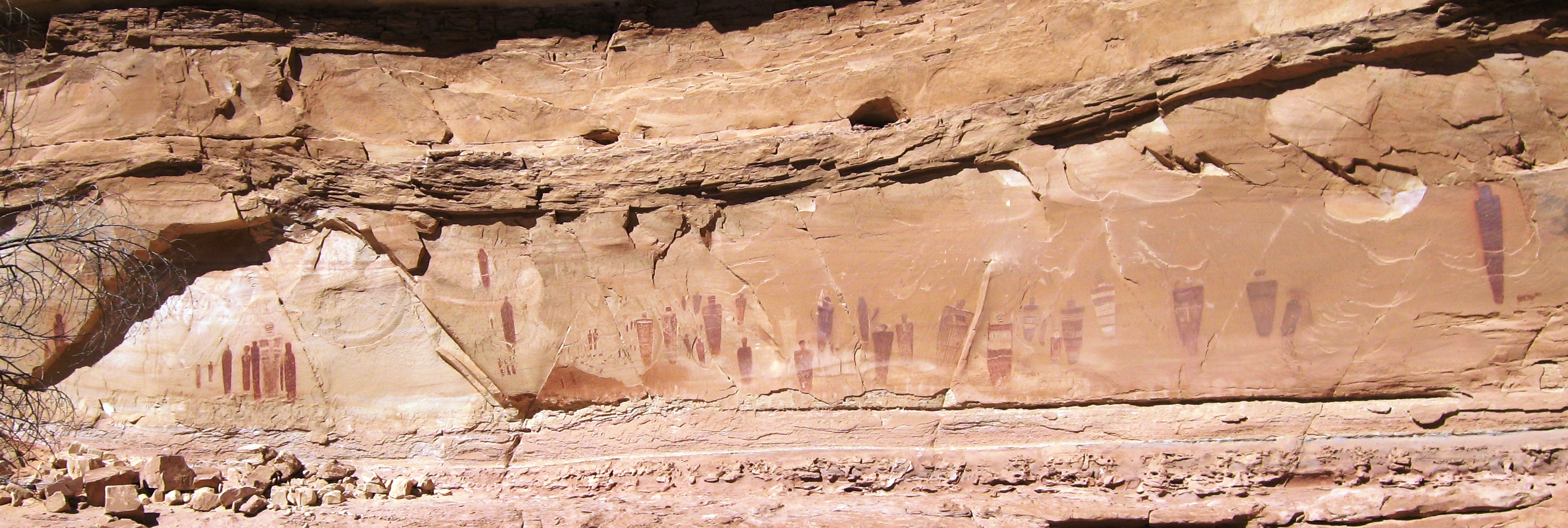 The Great Gallery, Pictographs, Canyonlands National Park, Horseshoe Canyon, Utah, 15 feet (4.6 m) by 200 feet (61 m), c. 1500 BCE. The Great Gallery, an extensive panel in the Barrier Canyon Style in Canyonlands National Park. The Great Gallery, Pictographs, Canyonlands National Park, Horseshoe Canyon, Utah, 15 feet by 200 feet, ca. 1500 BCE.